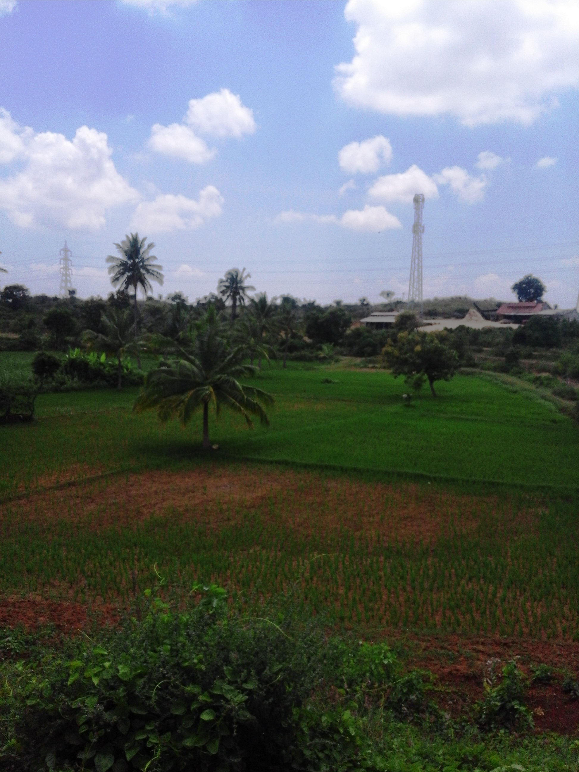 Mandya district, Karnataka state, India.